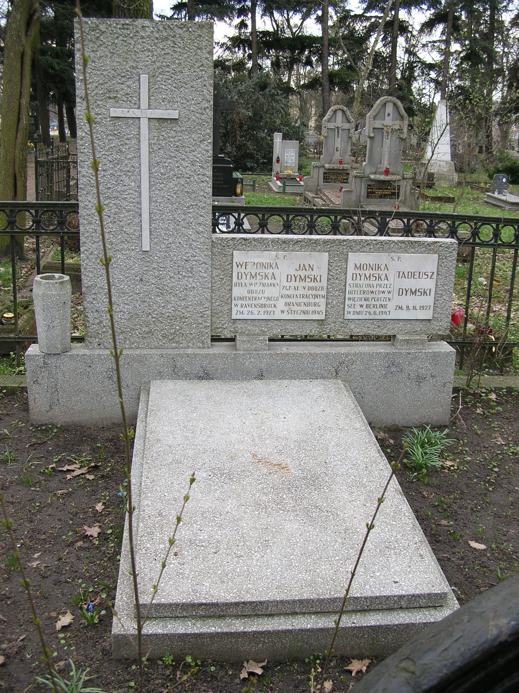 Tomb of Monika Dymska, murdered by Nazi Germans. Former military cemeterie in Toruń.